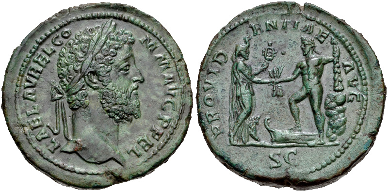 Commodus. AD 177-192. Æ Sestertius (34mm, 27.77 g, 1h). Rome mint. Struck AD 192. L AEL AVREL CO MM AVG P FEL, laureate head right PROVID ENTIAE AVG, Africa standing right, wearing elephant skin headdress and with lion at feet to right, holding sistrum and handing grain ears to Hercules standing left, with right foot on prow and holding club set on rock pile; S C in exergue. RIC III 641; MIR 18, 861-6/30; Banti 355. EF, wonderful green patina. Very rare reverse. Ex Lanz 120 (18 May 2004), lot 366 (cover coin). Attempting to separate himself with the philosophic nature of his father, Marcus Aurelius, and display his physical prowess, Commodus adopted the attire and persona of Hercules, believing himself to be the reincarnation of that deity. He would appear in the arena to fight not only other gladiators, but a variety of wild animals as well. Throughout his rule, Hercules was his symbol as the protector of the empire.